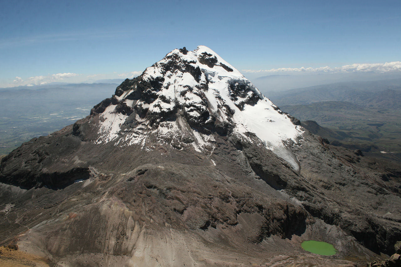 Iliniza Sur seen from Iliniza Norte summit, Ecuador